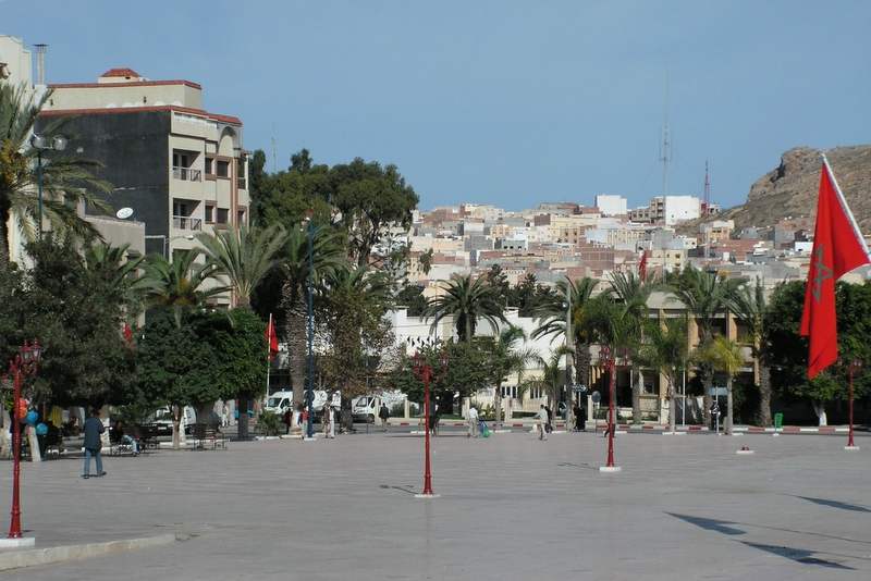 A down town square in Al Hoceima, Morocco.